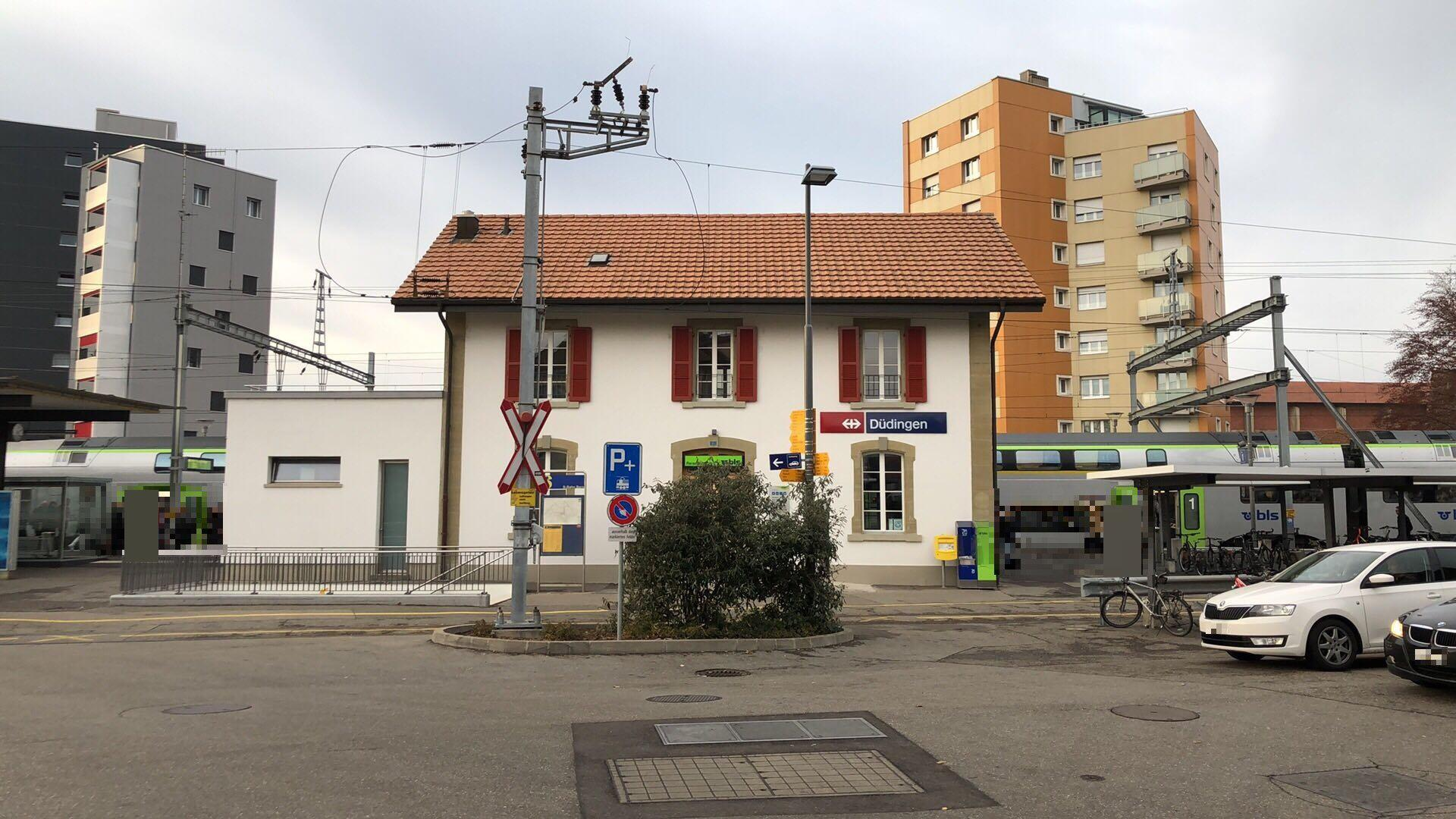 Düdingen railway station in Düdingen, Switzerland.